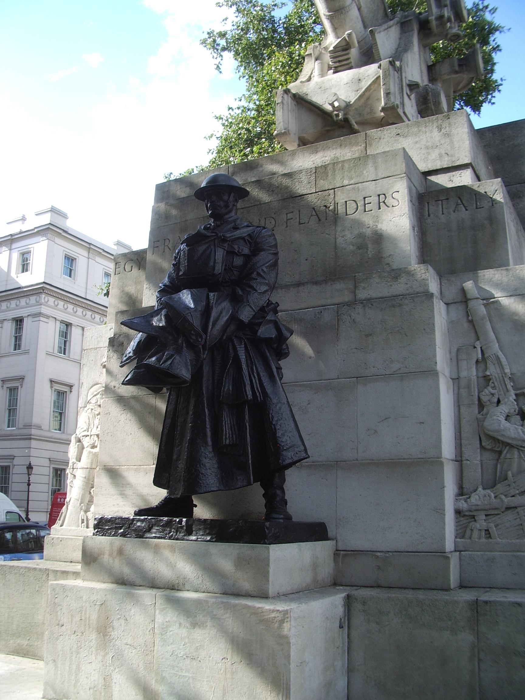 Officer statue at the Royal Artillery Memorial